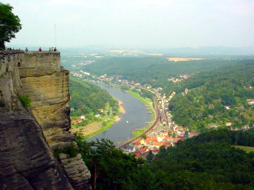 Fortress Königstein: view from the fortress to Königstein and the Dresden–Děčín railway line